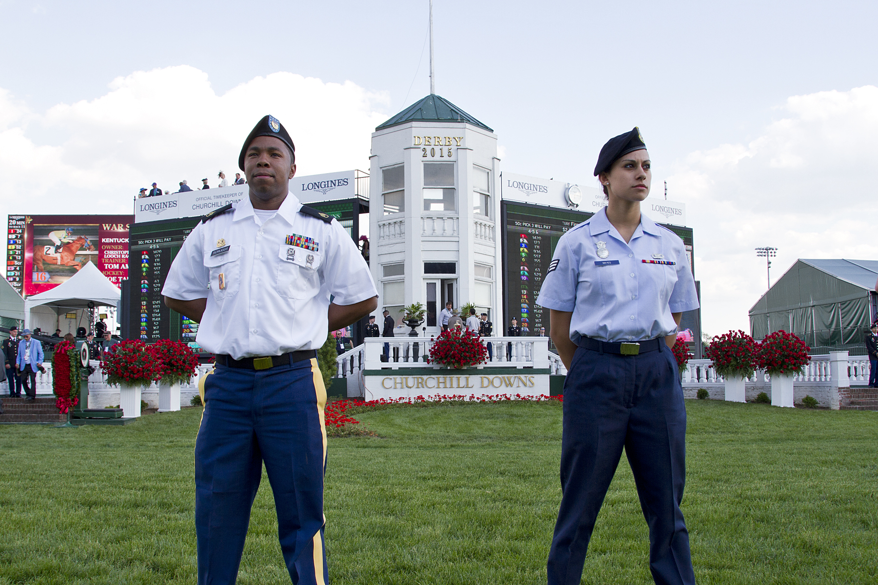 Kentucky Guardsmen provide security at the winners circle prior to the Kentucky Derby at Churchill Downs in Louisville, Ky., May 2, 2015. (U.S. Army National Guard photo by Staff Sgt. Scott Raymond)